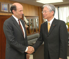 John Roos, Ambassador to Japan, met Masayuki Naoshima, Minister of Economy, Trade and Industry, at the Ministry of Economy, Trade and Industry in Chiyoda Ward, Tōkyō Metropolis on October 21, 2009.